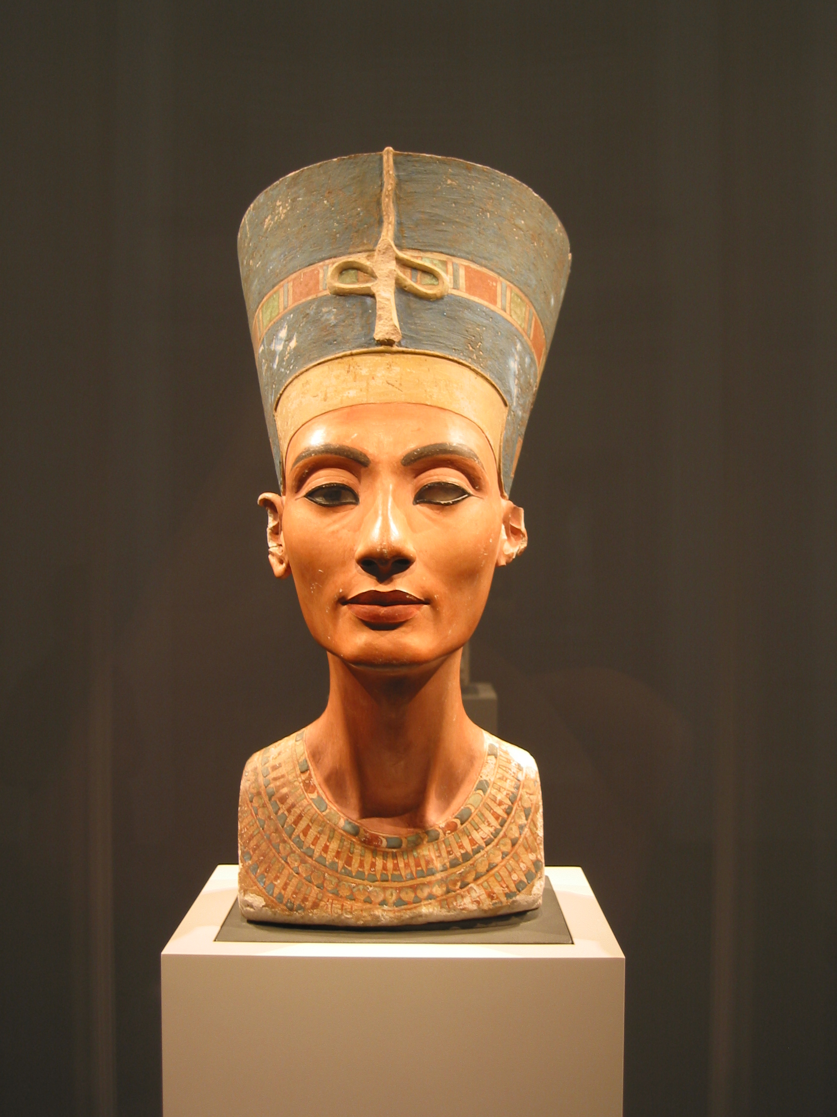 Object in the Ägyptisches Museum Berlin (Egyptian museum, building of the New Museum), Berlin.